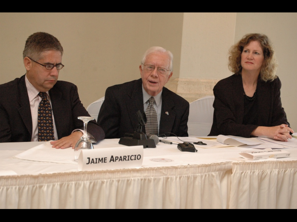 Aparicio with Jimmy Carter, former President of the United States of America